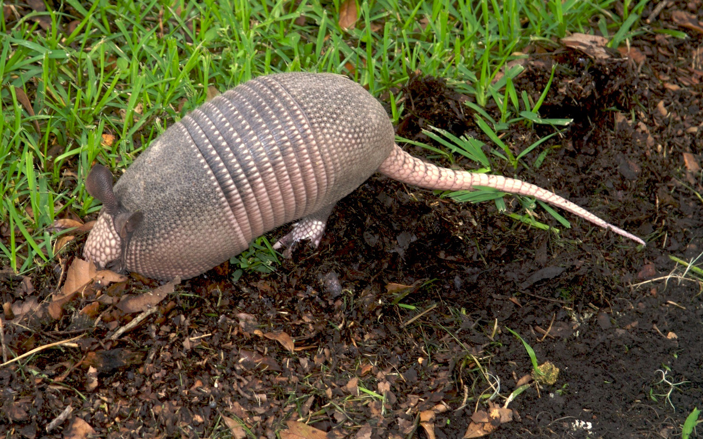 Armadillo searching for food. This photo was taken on the Destrehan Plantation in Louisiana.